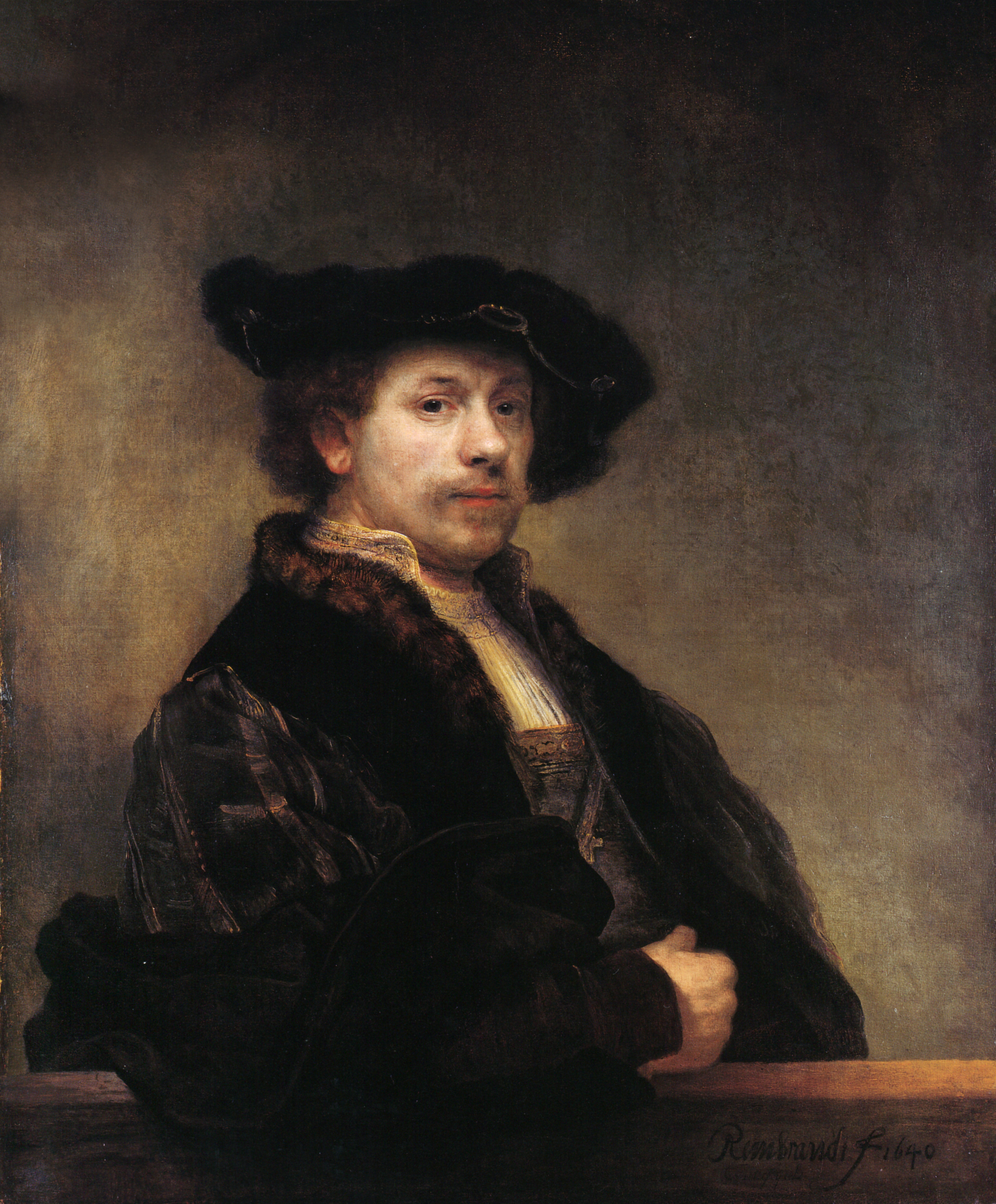 Detail of Self-portrait at 34, with modified background to make rectangular. Oil on canvas, 1020 x 800mm (40 1/8 x 31 1/2"). Signed and dated bottom right: Rembrandt f. 1640; inscribed: Conterfeycel [Portrait]. The National Gallery, London. London only.